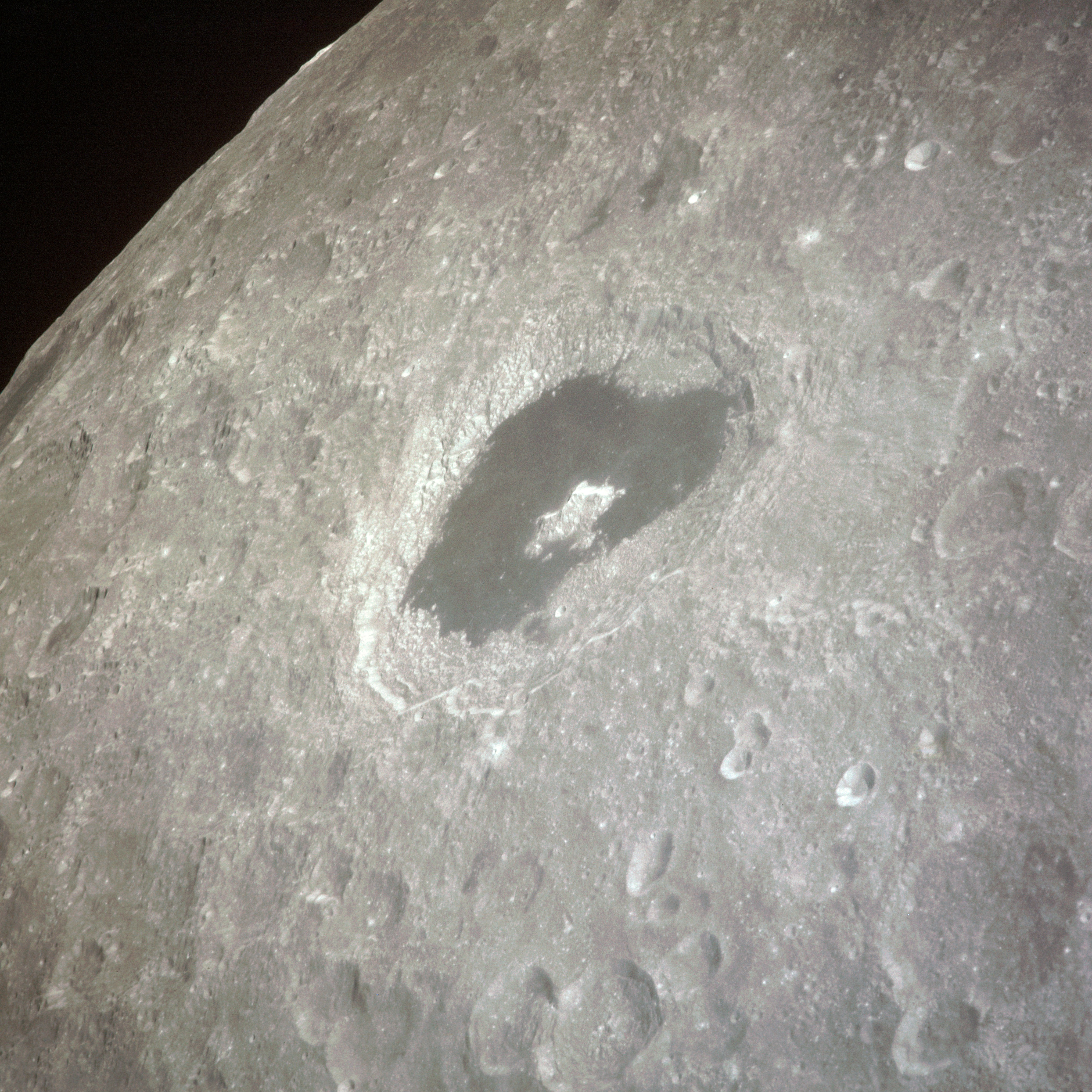 Excellent view of the lunar farside showing the crater Tsiolkovsky, as photographed by the crew of the Apollo 13 mission during their lunar pass. The view is looking southeast toward the lunar horizon. The approximate coordinates of Tsiolkovsky are 128.5 degrees east longitude and 20.5 degrees south latitude. The Apollo 13 crew members were forced to cancel their scheduled lunar landing because of an apparent explosion of oxygen tank number two in the Service Module (SM).